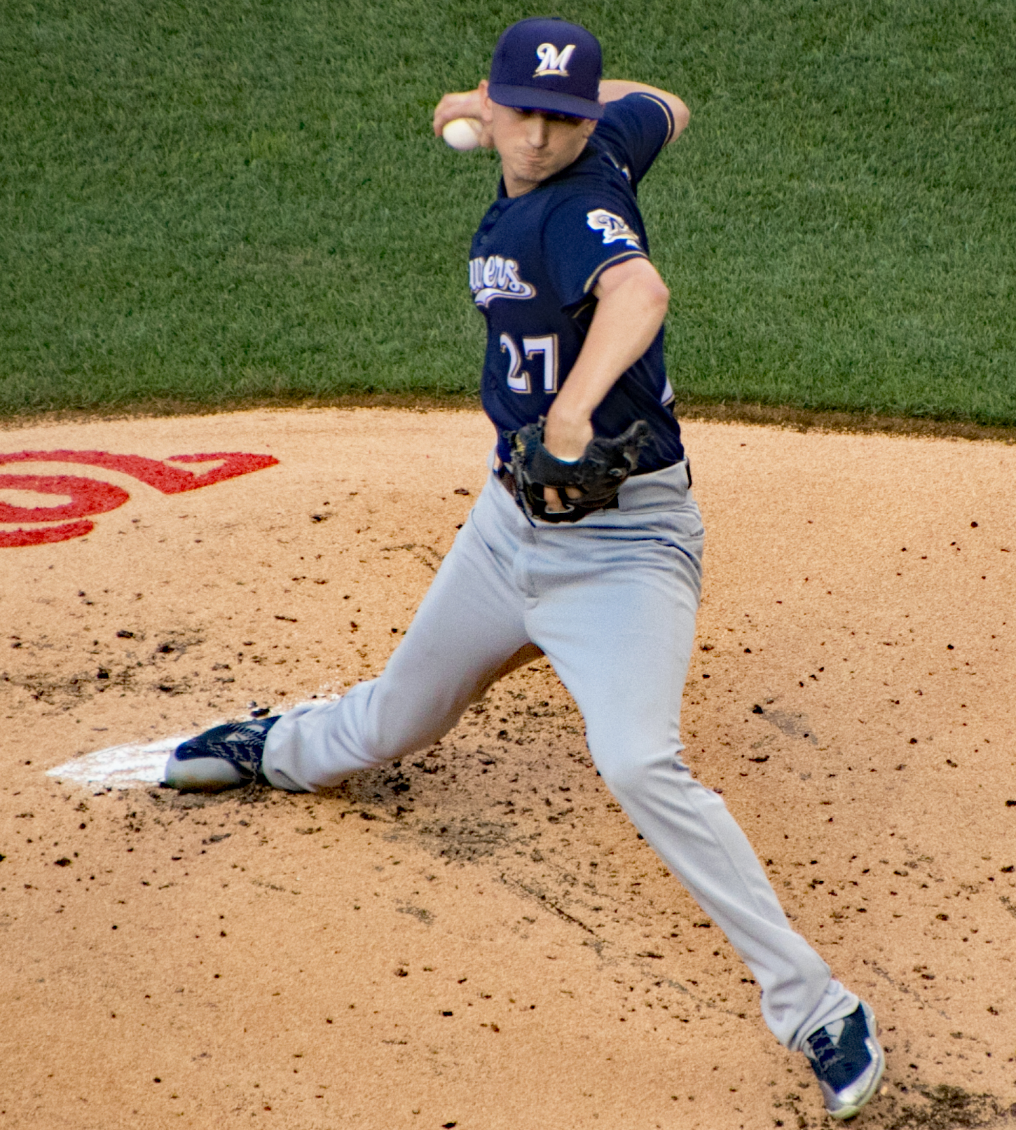 Zach Davies delivers a pitch for the Milwaukee Brewers during a 2017 game at Nationals Park in Washington, D.C.